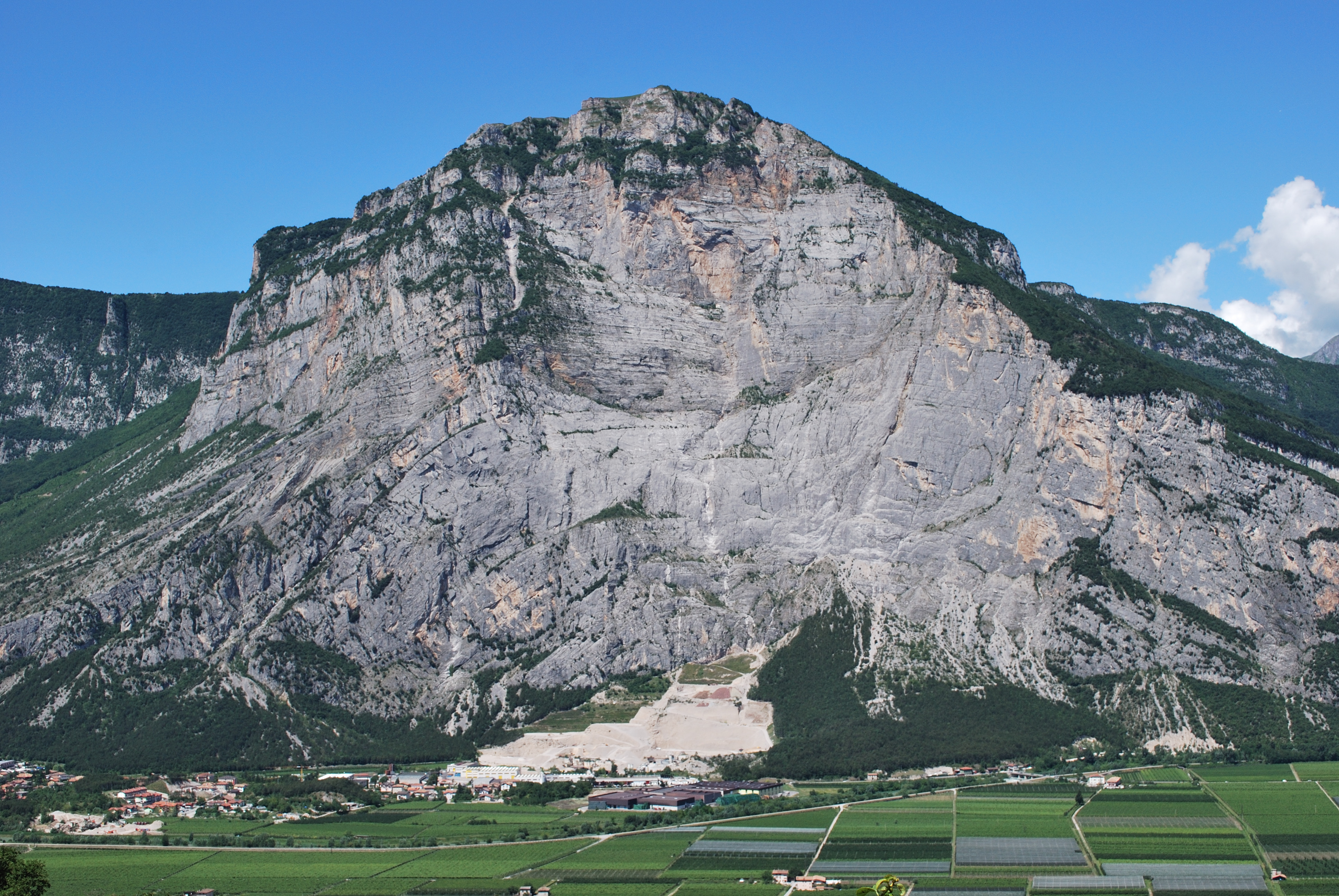 Mountain monte Casale near Dro Italy